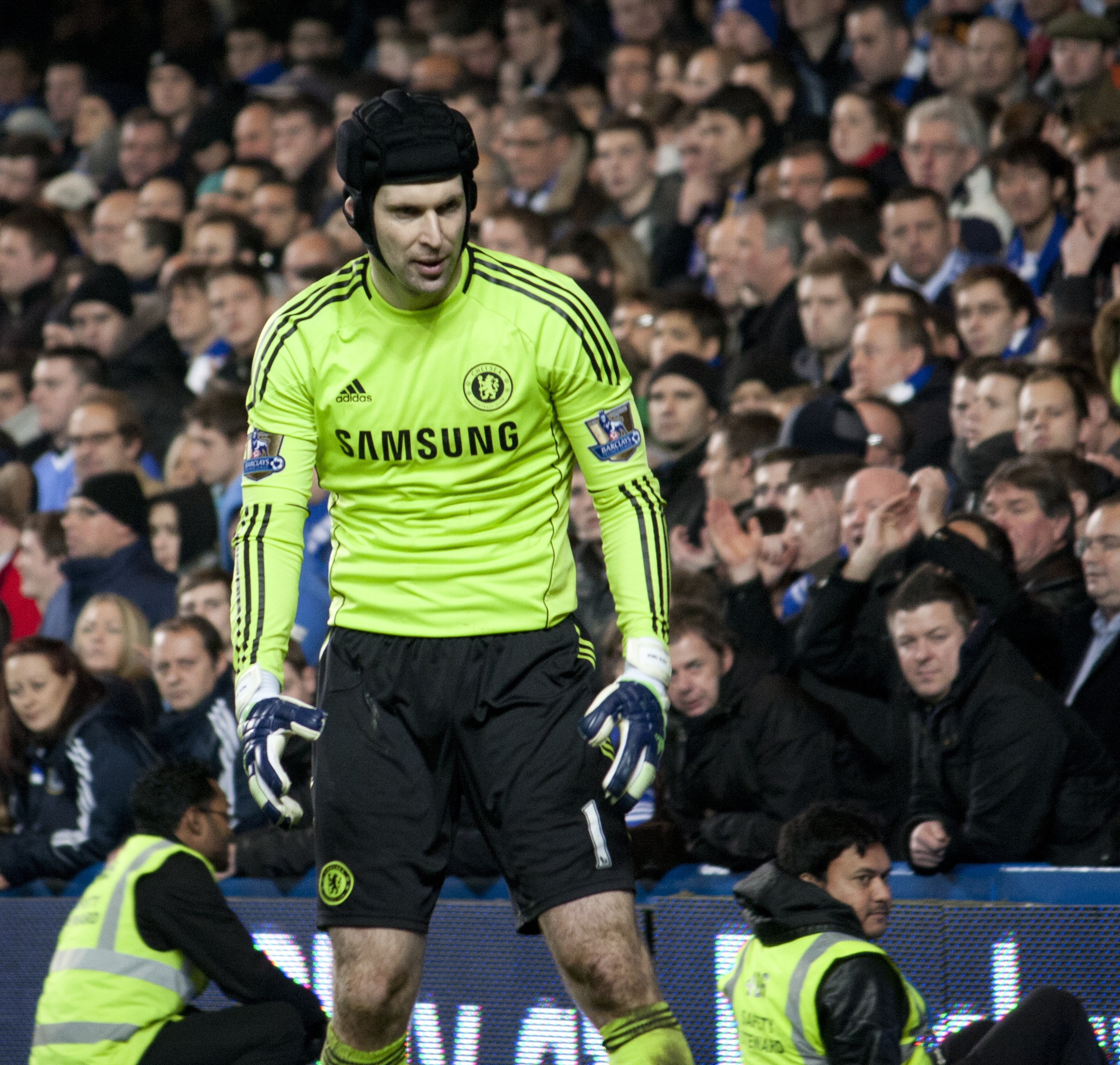 Petr Cech of Chelsea